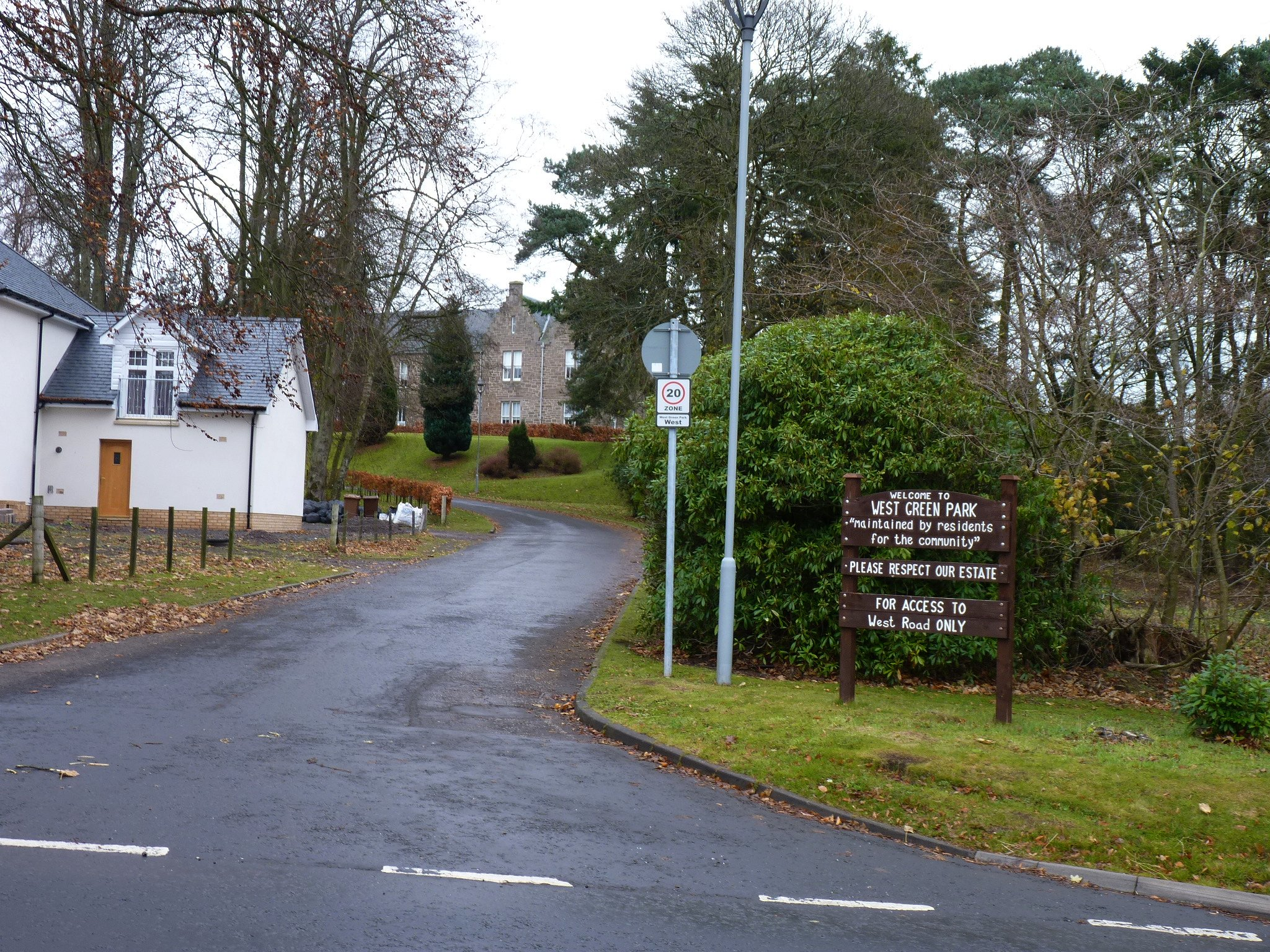 Entrance to West Green Park